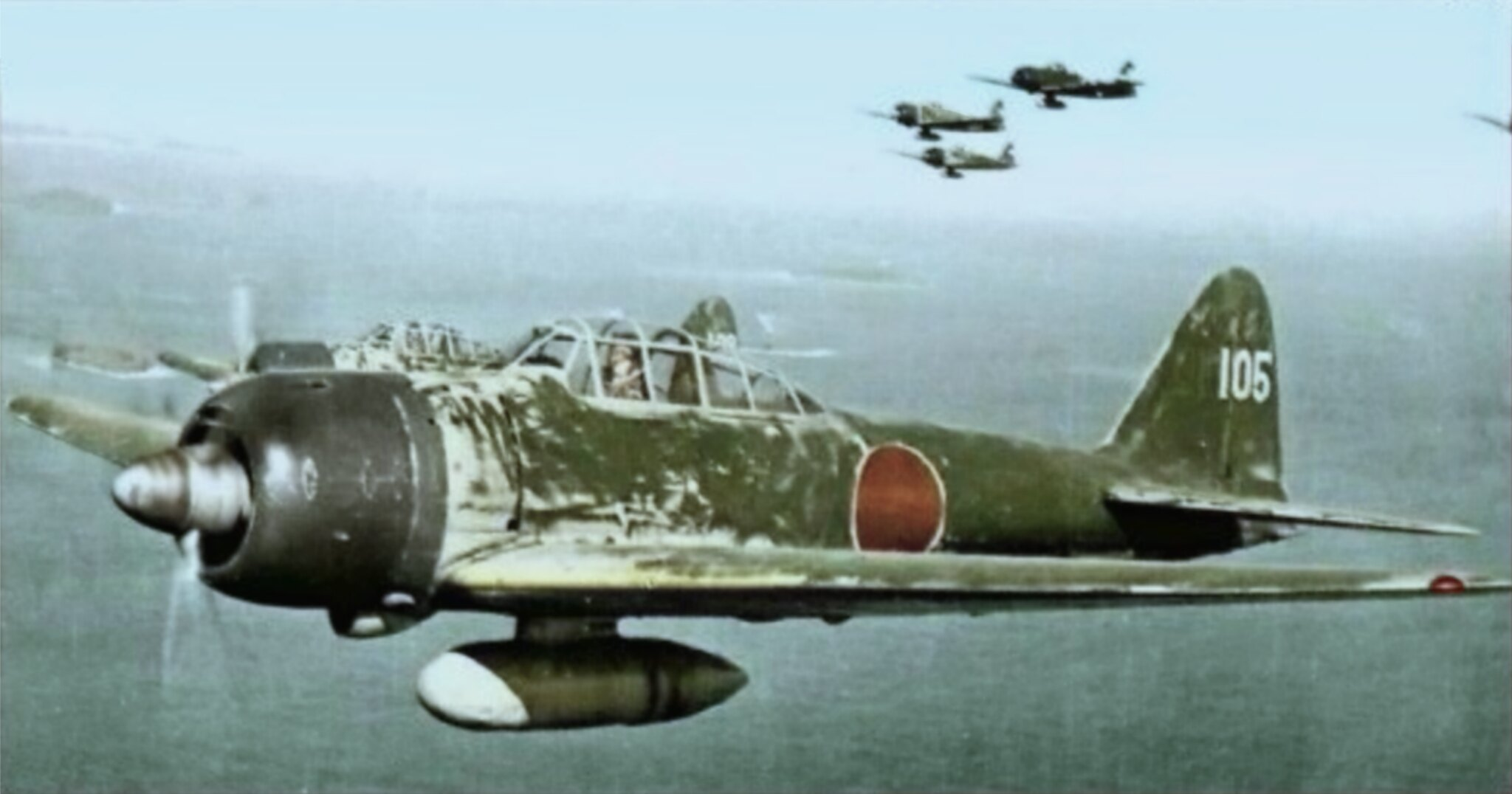 IJNAF 251 Kokutai UI-105